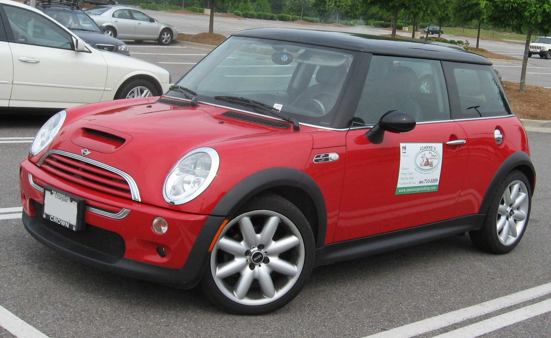 2001-2006 Mini CooperS photographed in USA.